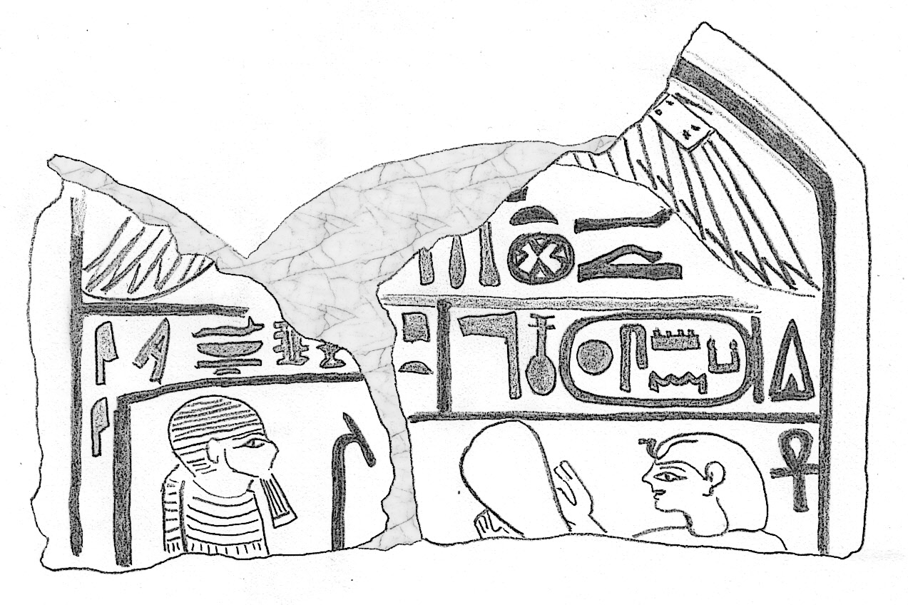 Drawing of a broken faience stele depicting a poorly known pharaoh of the 13th Dynasty, Semenkare Nebnuni (right), making an offer before the god Ptah "South of his wall" (left); The cartouche above the king contain his throne name "Semenkare". The same scene appears on the verso, but with the god Horus "Lord of the foreign countries" instead of Ptah, and with the cartouche containing the personal name "Nebnuni". Faience from Gebel Zeit in the Sinai, present location unknown, reign of Nebnuni (18th century BCE), 13th Dynasty, Second Intermediate Period. [ref: Georges Castel & Georges Soukiassian, Dépôt de stèles dans le sanctuaire du Nouvel Empire au Gebel Zeit, BIFAO 85 (1985), ISSN 0255-0962, p. 290, pl. 62]